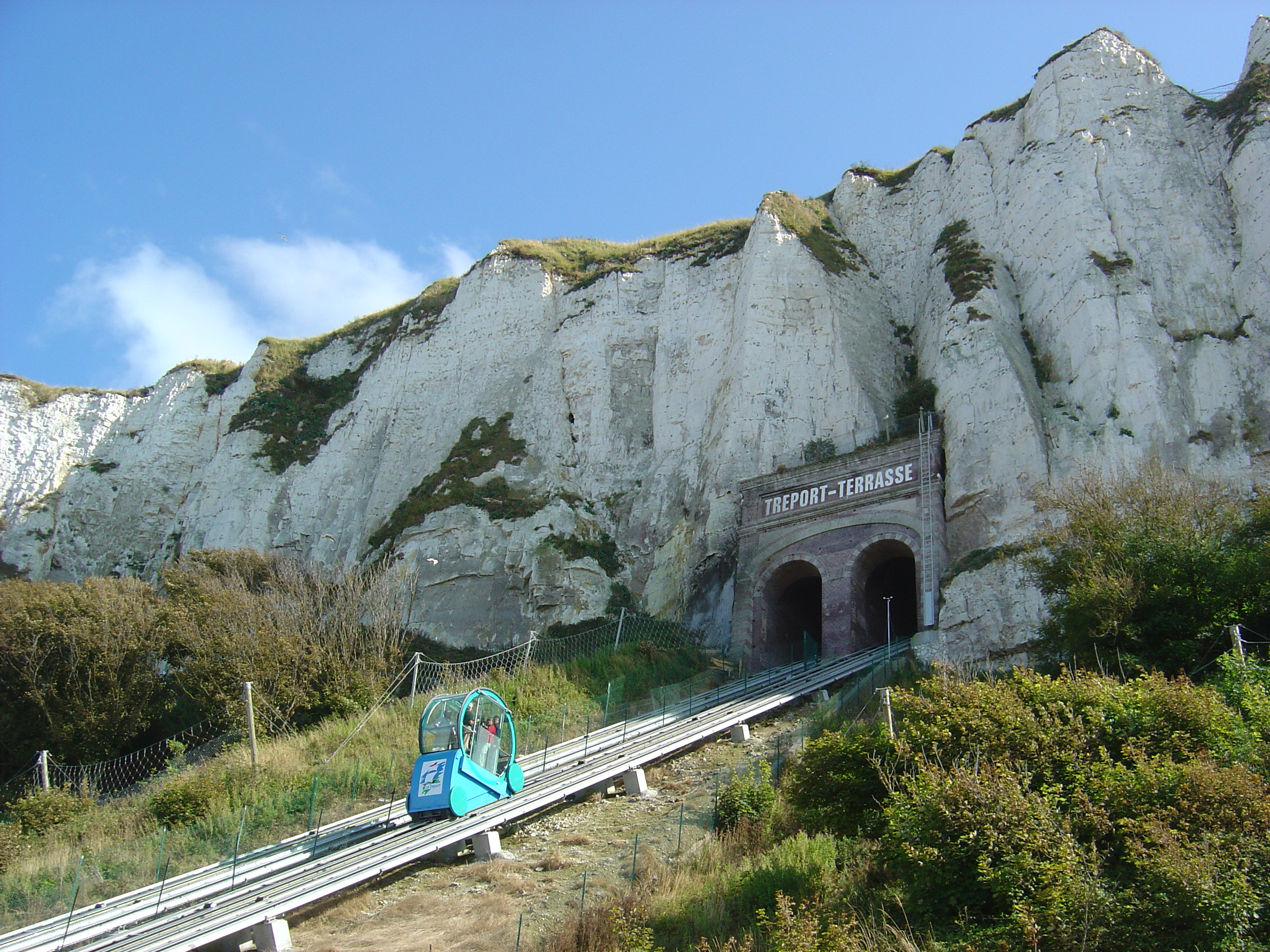 Cliffs of Le Tréport city, Seine Maritime, France.